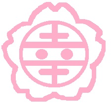 Satte Saitama chapter